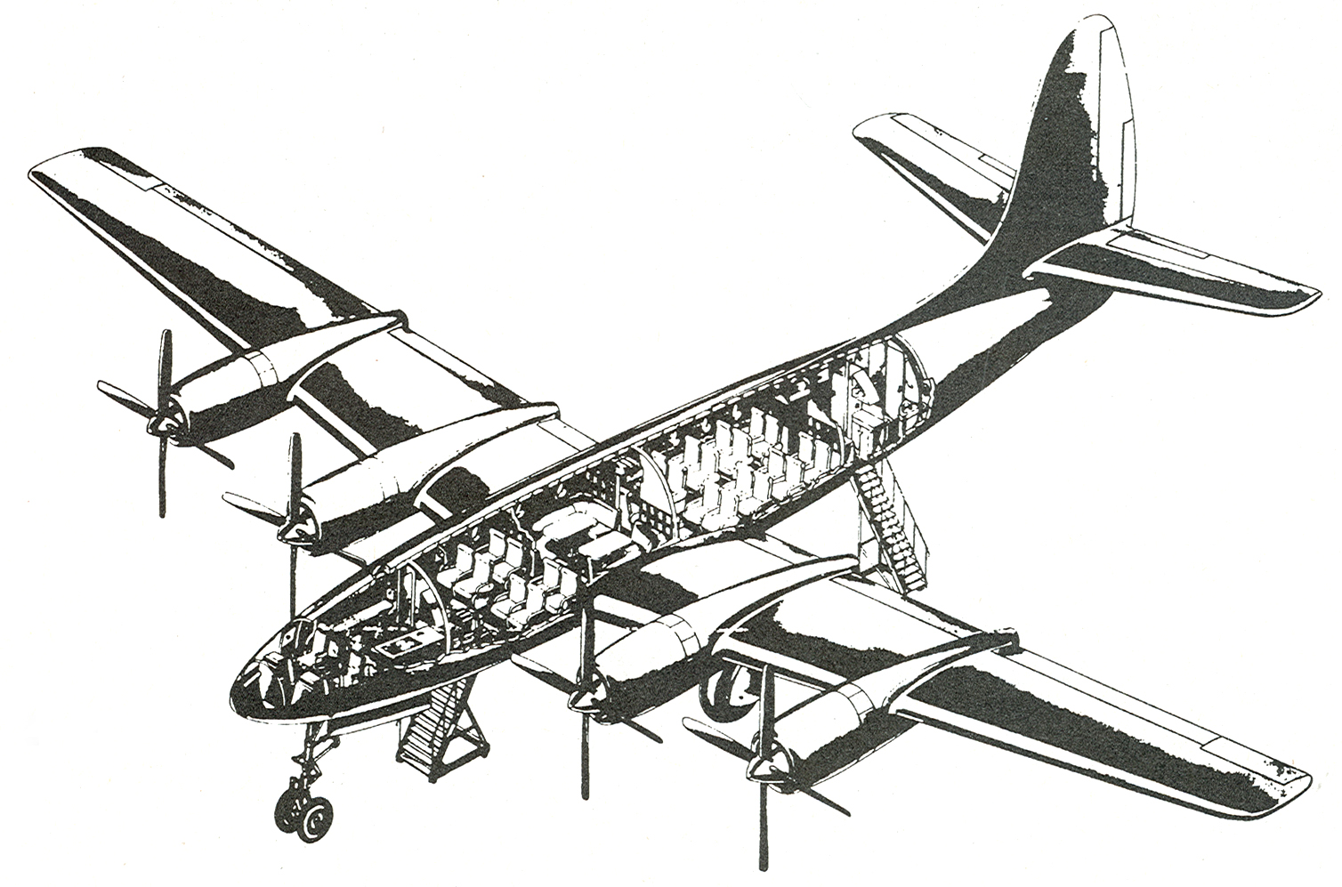 This design was for 46 passengers and 7 crew with a nice lounge amidships. That location offered more seating without having the wing obstruct passengers view of the ground.